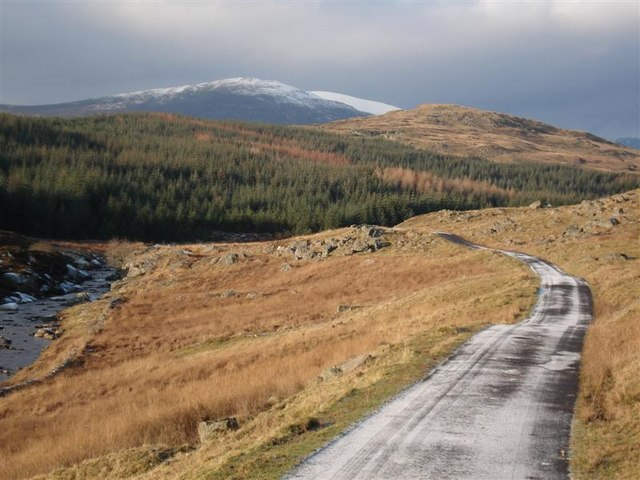 Ben Vuirich from the Glen Fernate road The private road up Glen Fernate is beautifully surfaced and incredibly icy in winter!